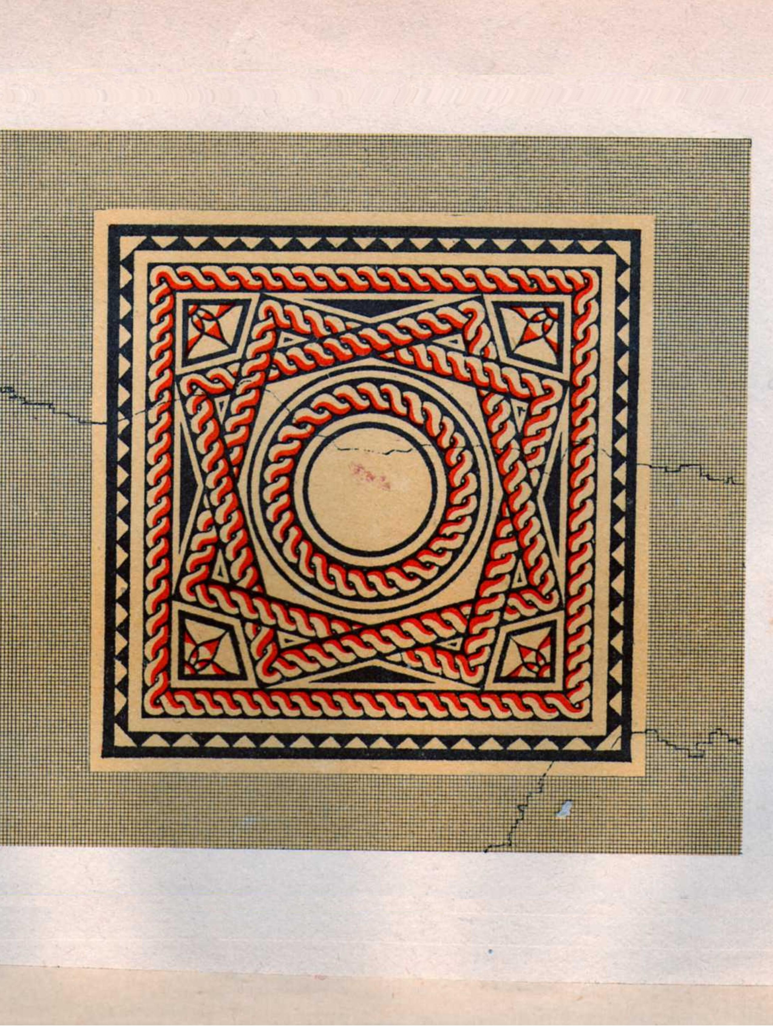 image of a Roman mosaic at Borough Hill Roman villa